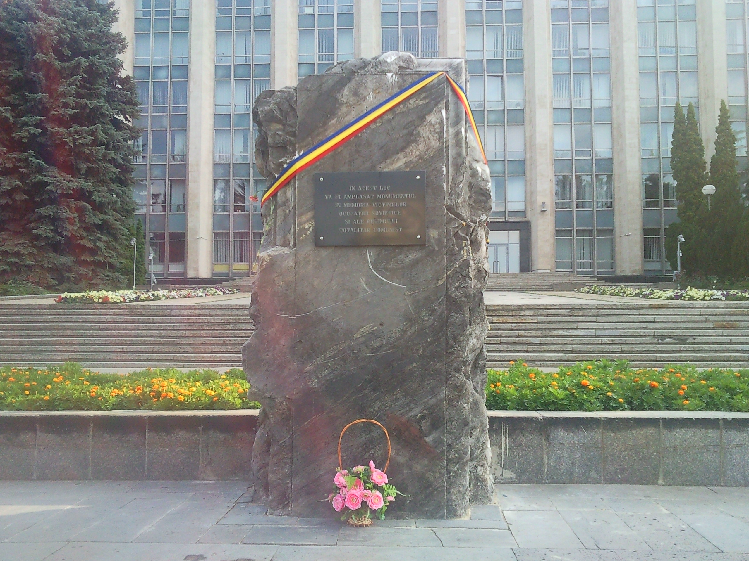 Stonememory to the Victims of the Soviet Occupation